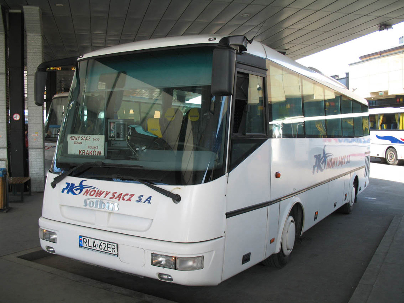 Solbus C 9,5 bus (#N50014) in Kraków, Poland. Built 2005, PKS Nowy Sącz operator.